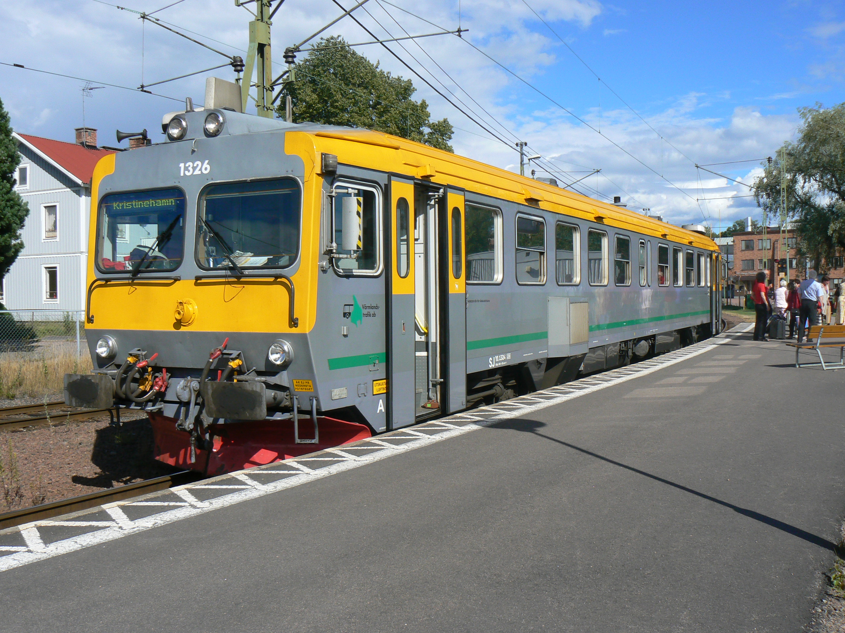 Swedish Y1 train in Kristinehamn.